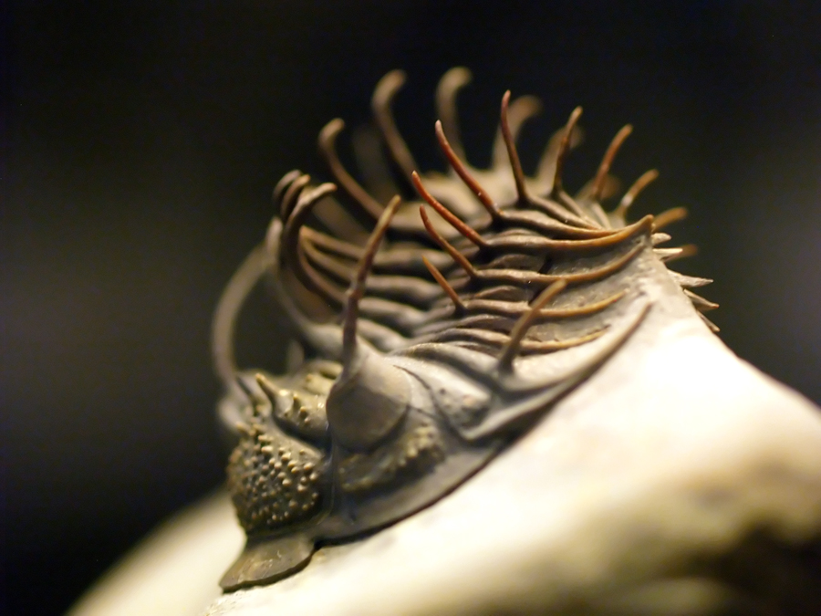 Comura sp. Age: Middle Devonian Location: Southern Morocco HMNS 1301 Wikipedia Loves Art at the Houston Museum of Natural Science This photo of item # [1] at the Houston Museum of Natural Science was contributed under the team name "Assignment_Houston_One" as part of the Wikipedia Loves Art project in February 2009. Houston Museum of Natural Science The original photograph on Flickr was taken by sulla55—please add a comment to the original Flickr page whenever a use has been made on Wikipedia or another project. Project galleries on Flickr: this institution, this team